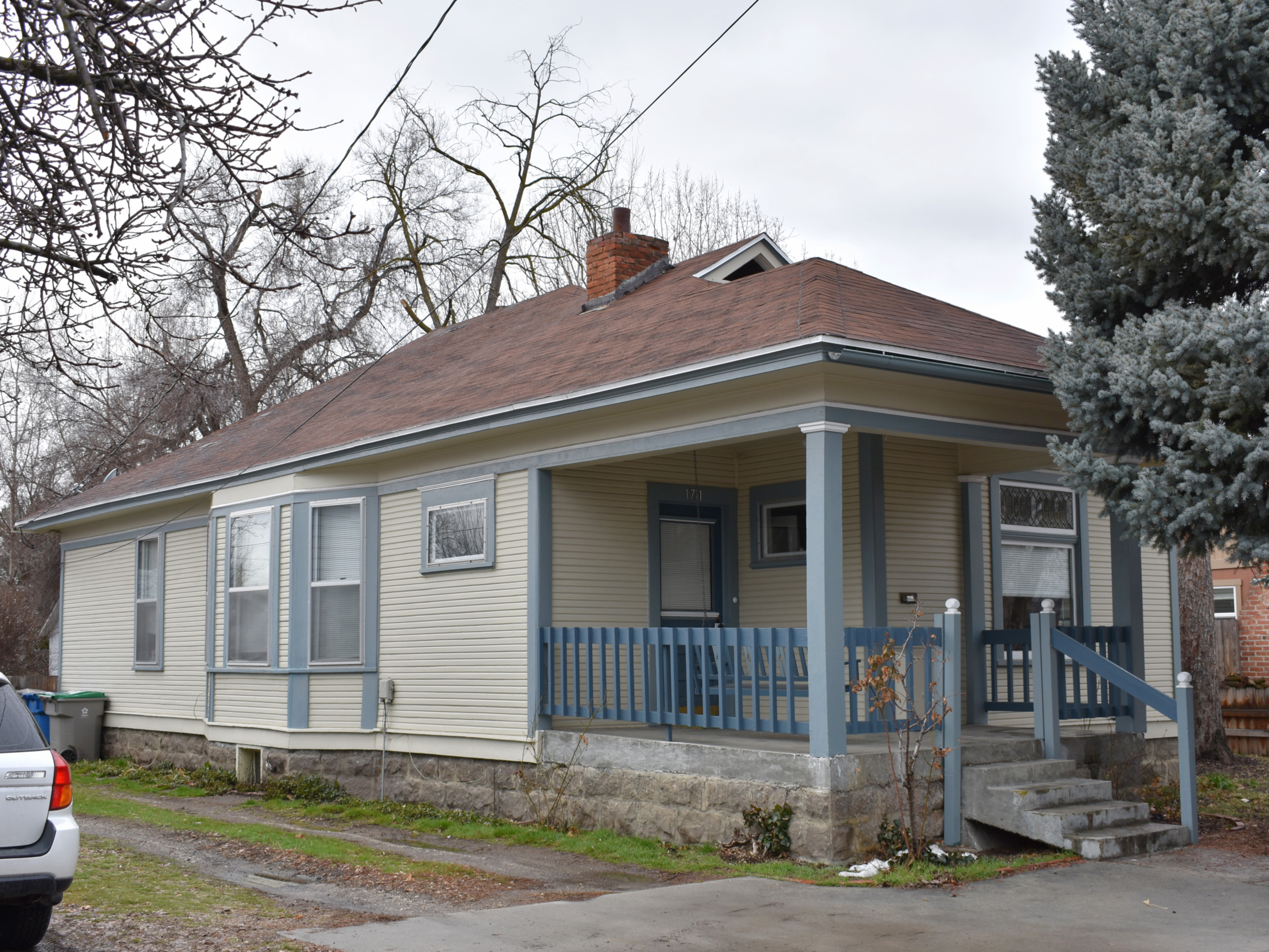 The Mrs. A.F. Rossi House in Boise, Idaho, was designed by Tourtellotte & Co. and is listed on the National Register of Historic Places.